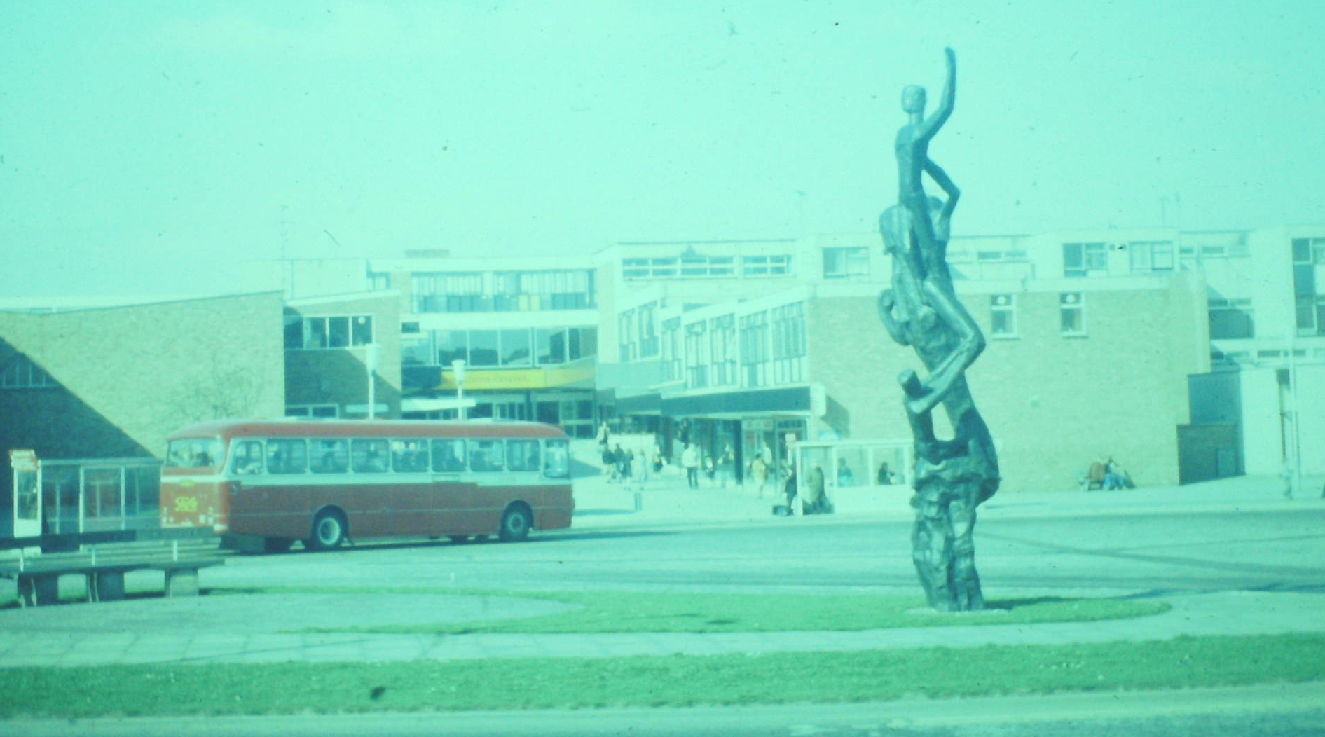 Glenrothes Bus Station. On Church Street, adjacent to the Kingdom Shopping Centre. The sculpture is "Ex terra" by Benno Schotz.